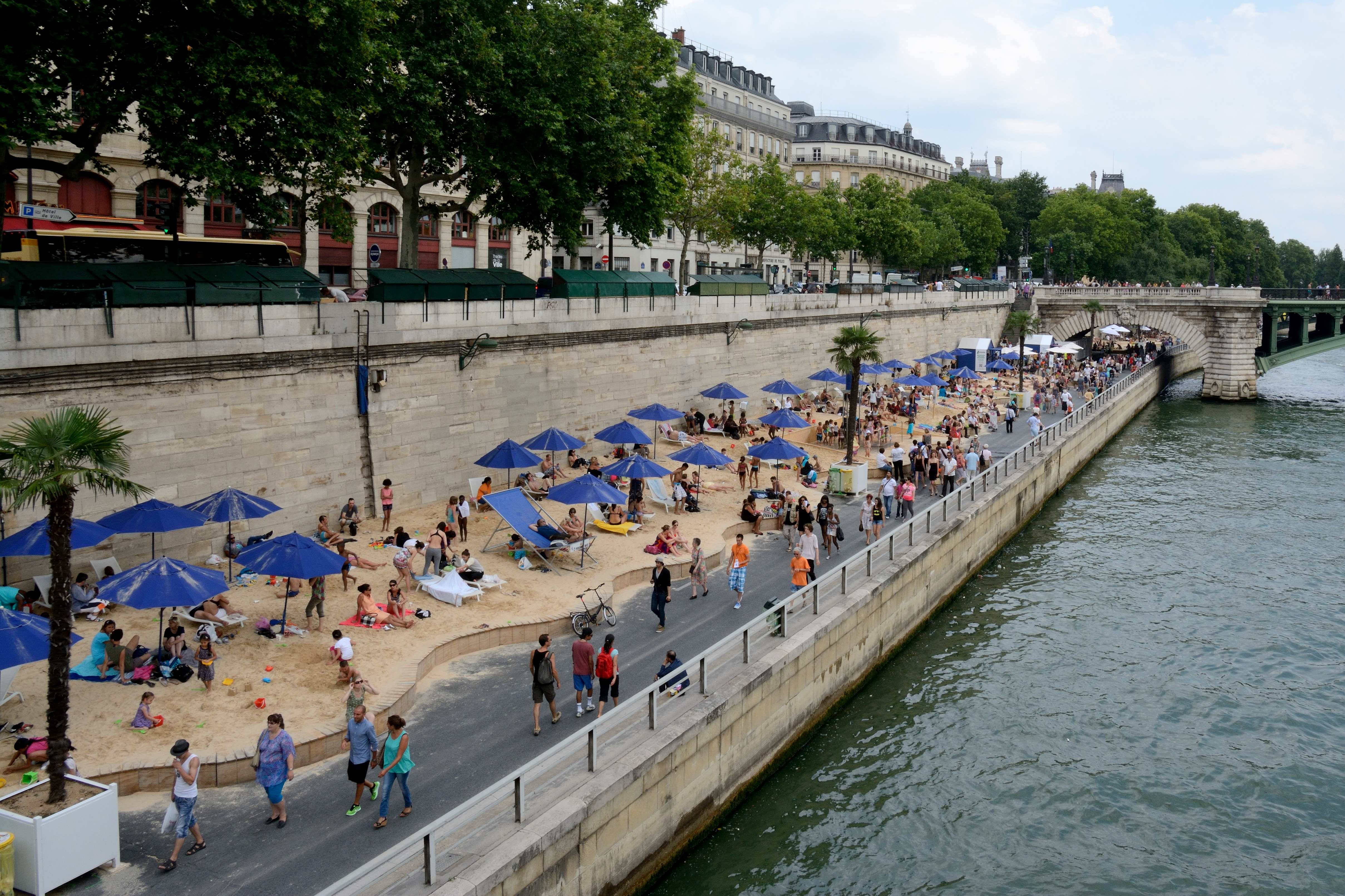 Paris-Plage, summer event along the river Seine, Paris